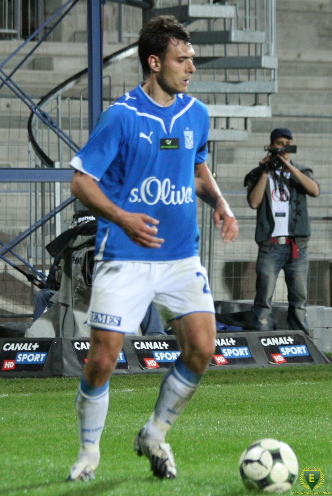 Polish football player Grzegorz Wojtkowiak